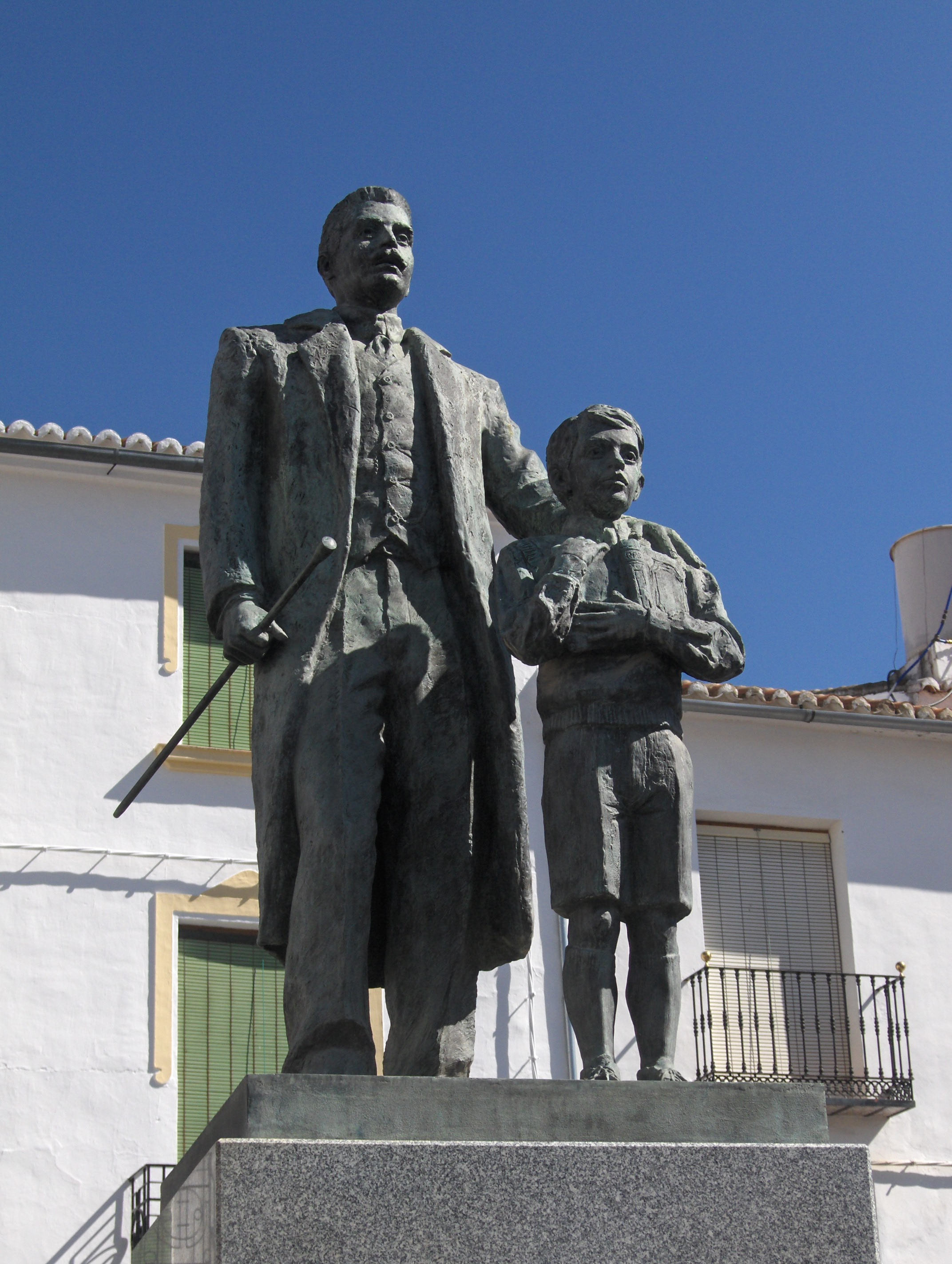 Statues in Colmemar.